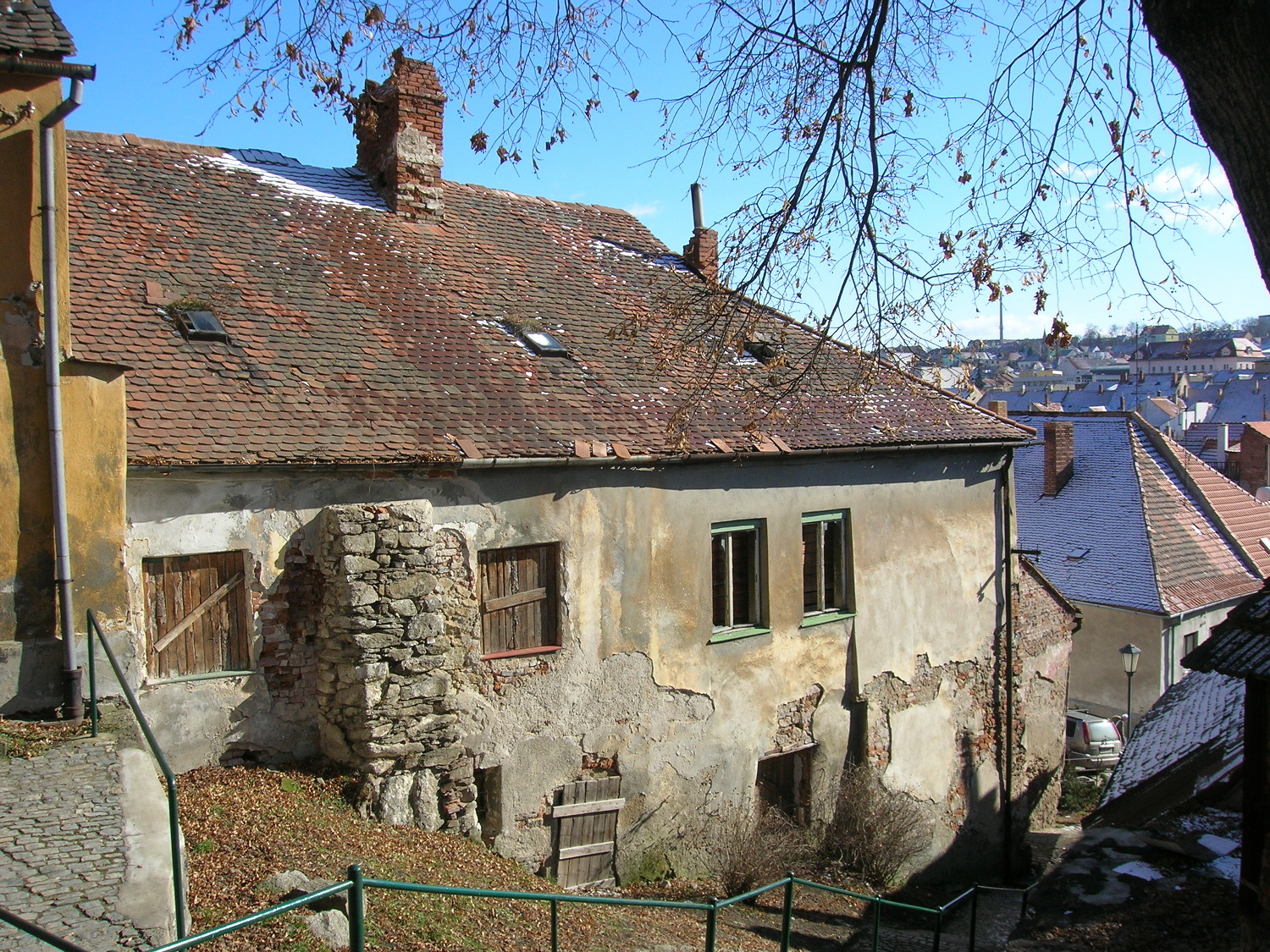 Třebíč-Zámostí. Poorhouse